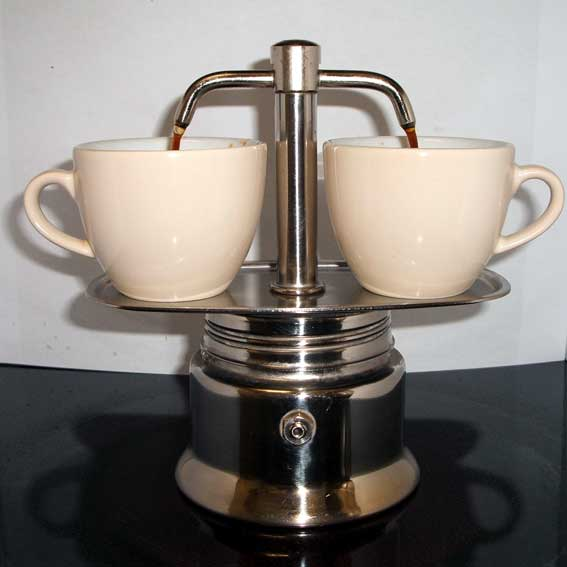 Coffee pot fountain version